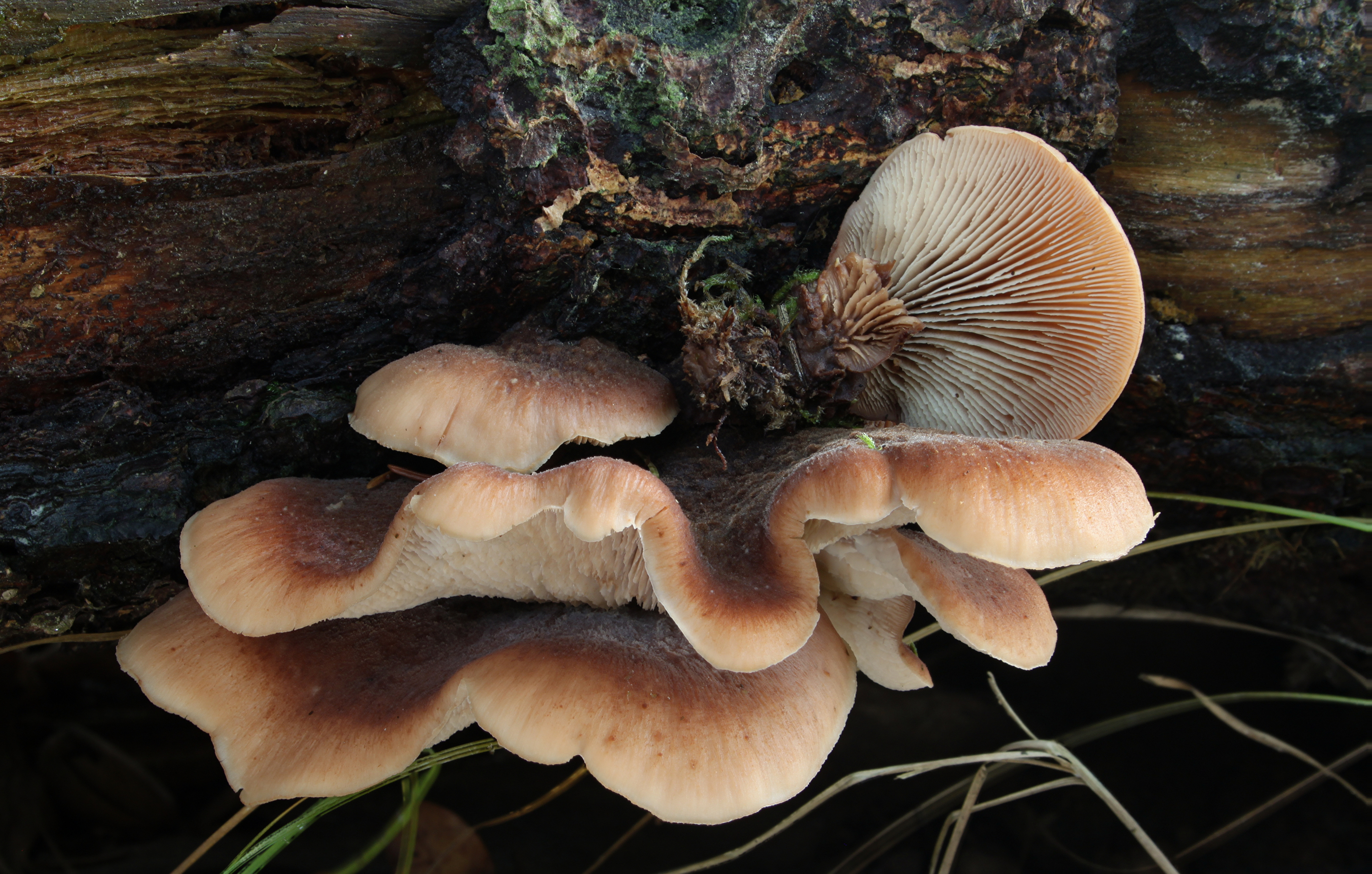 Lentinellus ursinus or Lentinellus castoreus (difficult determination), Family: Auriscalpiaceae, Location: Germany, Erbach, Ringingen